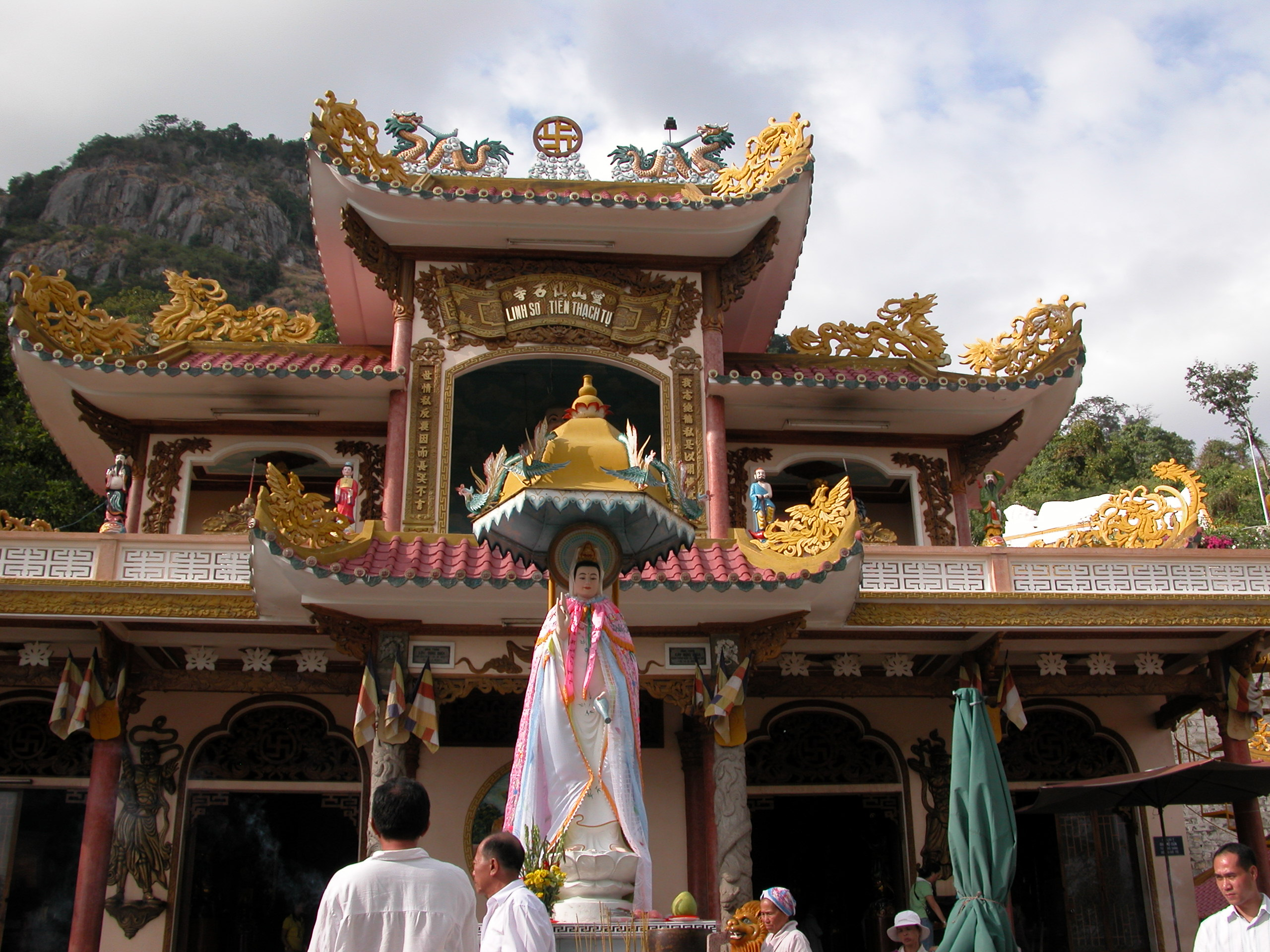 Linh Sơn Thiên Thạch pagoda on Black Virgin Mountain (Bà Đen). Vietnamese Buddhist temple located in Tây Ninh province, Vietnam.